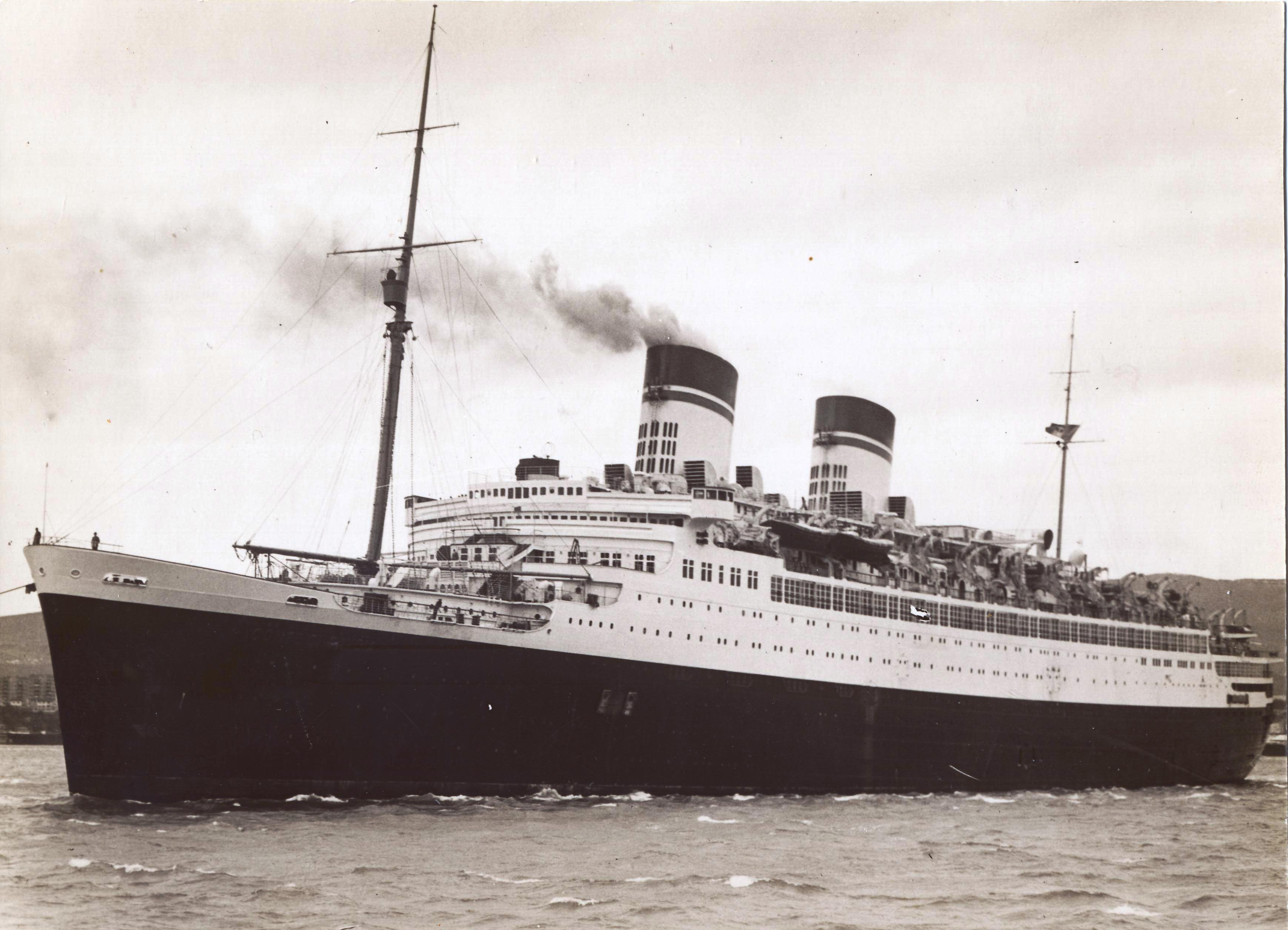 The Conte di Savoia during its sea trials in Trieste's Bay.